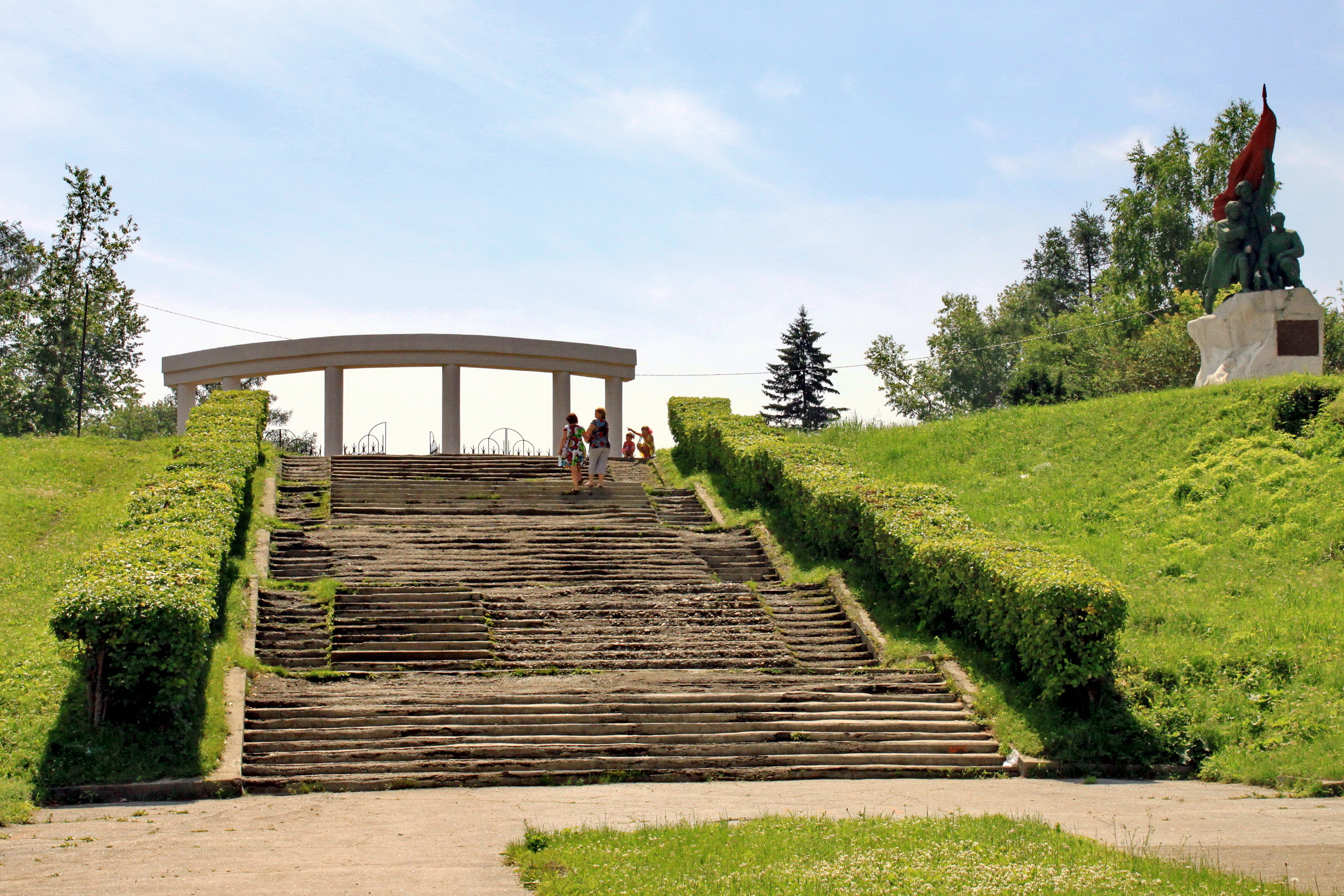 Central Park of Culture and Leisure. Irkutsk, Russia.